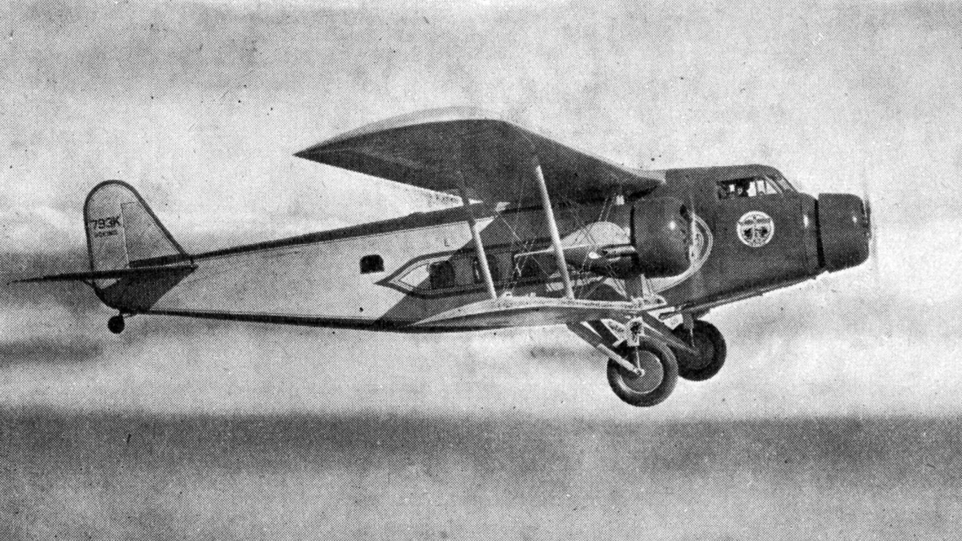 Boeing 80A photo from L'Année aéronautique,1929